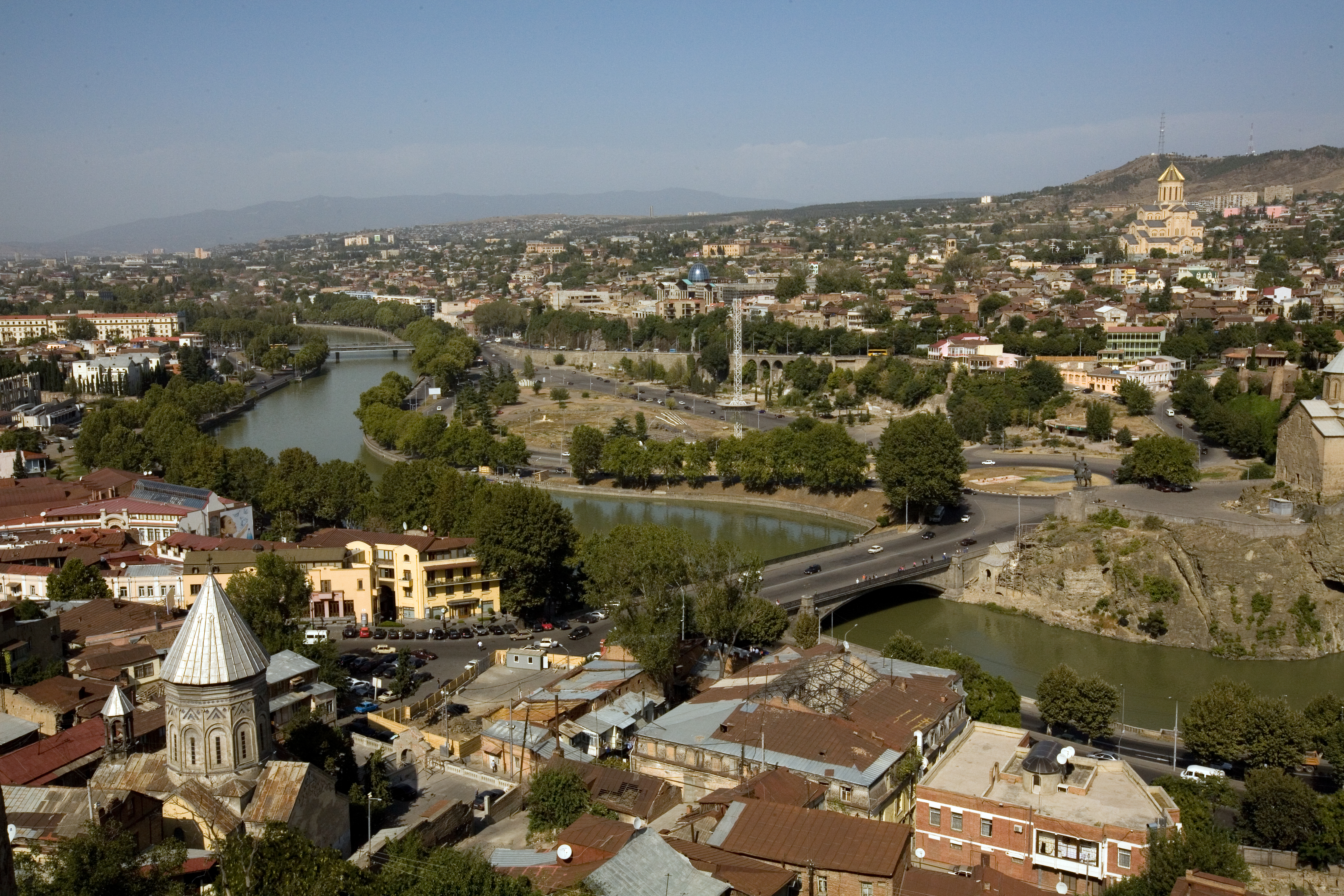 Kura (Mtkvari) River in Tbilisi, the capital of Georgia; photo taken from Narikala fortress hill, looking upstream the river. Notable objects: Metekhi cliff on the right, Holy Trinity Cathedral in the top right, Saint George's Church in the bottom left, Metekhi Bridge below the center, Nikoloz Baratashvili Bridge (named after the Georgian poet Nikoloz Baratashvili) in the distance